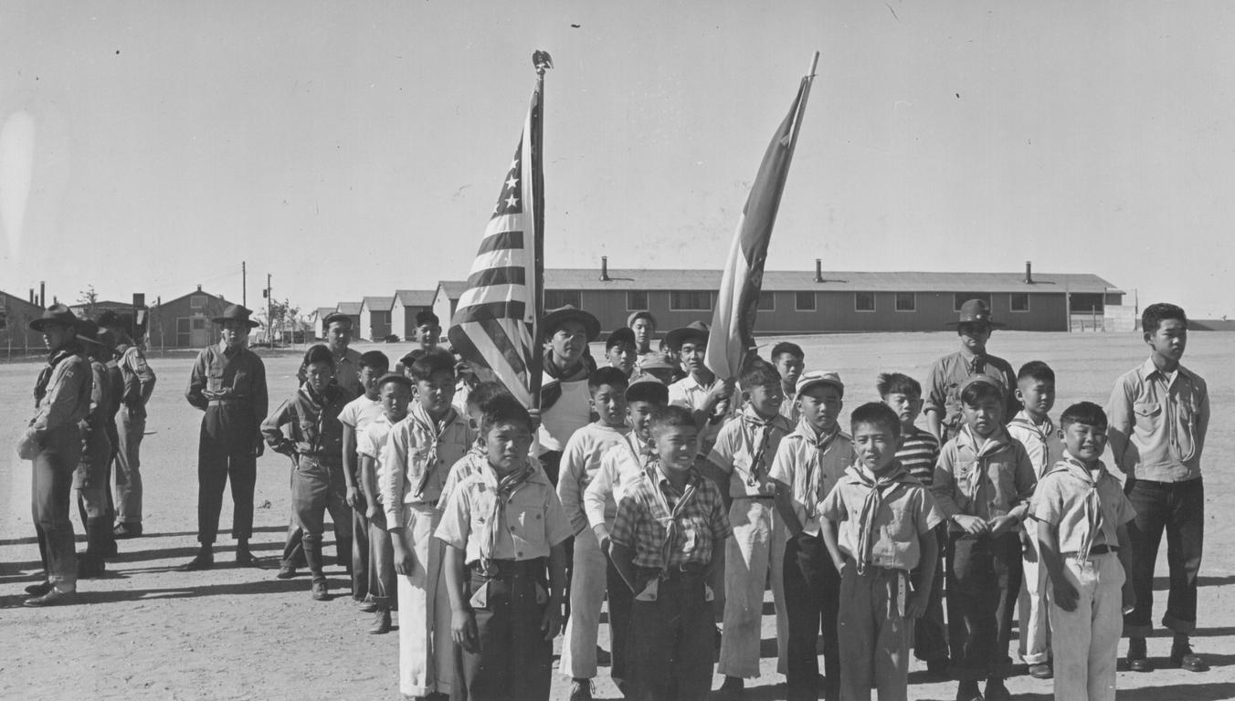 Japanese American boys on a Boy Scout Memorial Day Service on May 30, Granada War Relocation Center, Amache, Colorado. 5/30/43